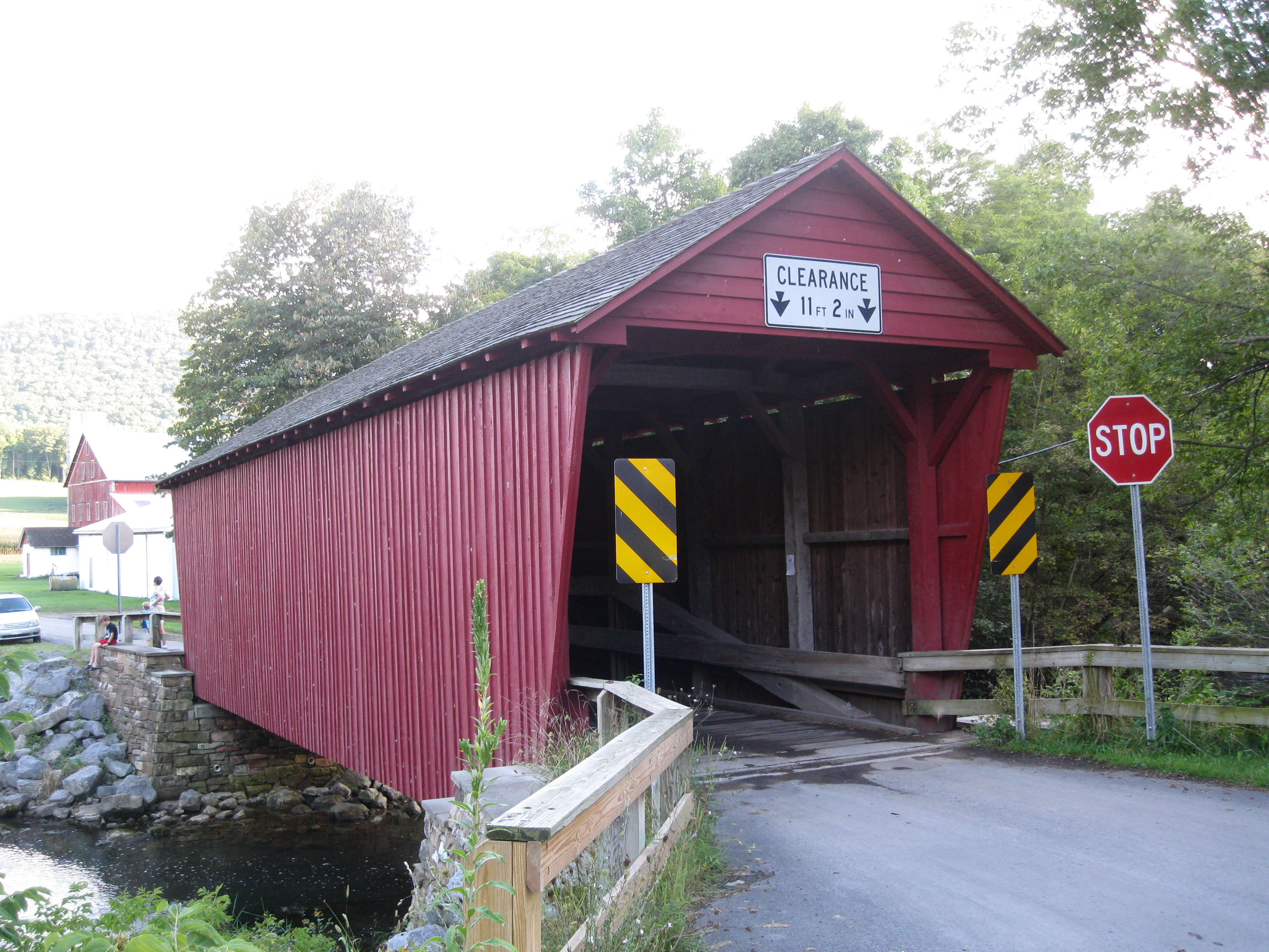 Logan Mills Covered Bridge built about 1874 on Fishing Creek in Logan Township in Clinton County, Pennsylvania, USA